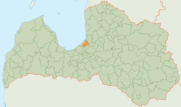 Ādaži Municipality on the map of Latvia